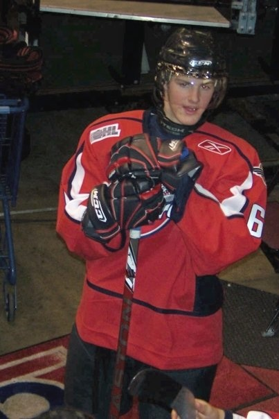 Austin Watson being interviewed during intermission.